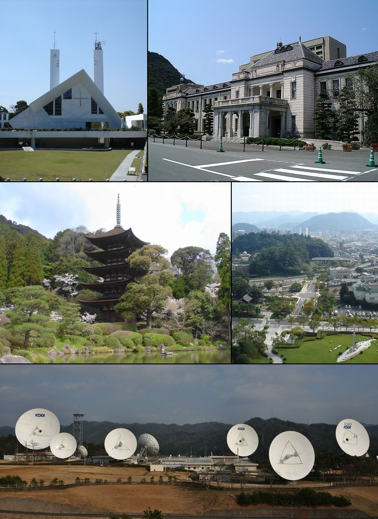 Yamaguchi City, JAPAN From top left:Yamaguchi Xavier Memorial Church, Yamaguchi Prefectural Government Museum(Former Yamaguchi Prefectural Goverment Office), Rurikoji Temple Five-storied Pagoda(Japan's National Treasure), View of Yamaguchi, Yamaguchi Satellite Earth Station,KDDI Corporation